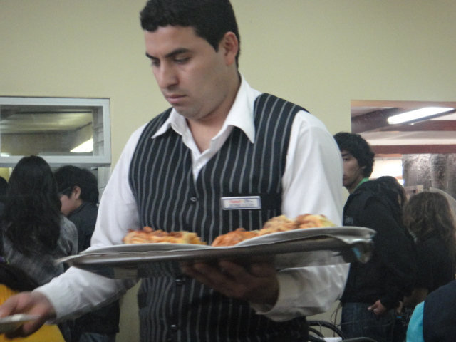 Luis Rios, waiter, cafetería in PUCP, Lima-Peru.